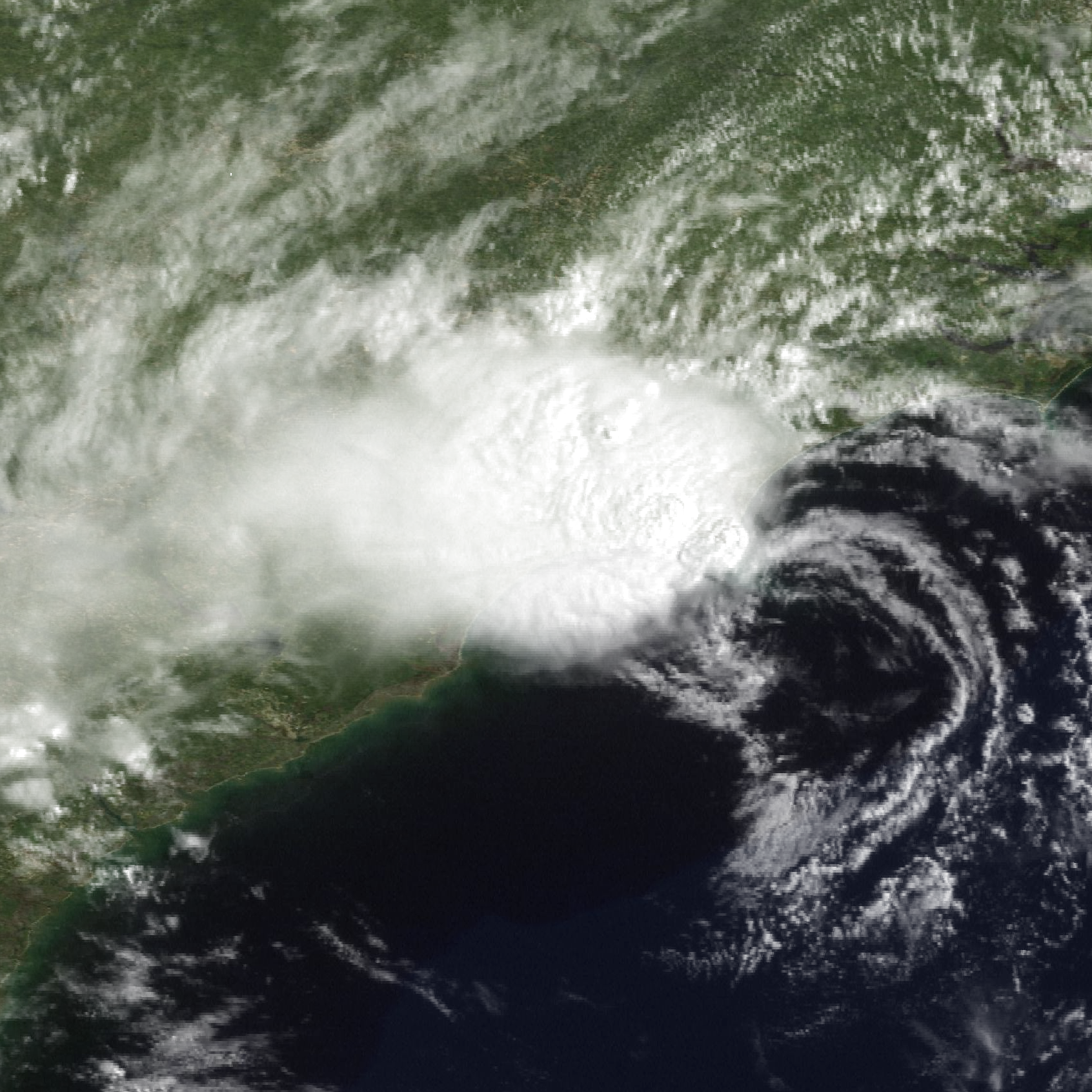 Tropical Storm Arthur shortly after peak intensity just off the coast of North Carolina on June 19, 1996